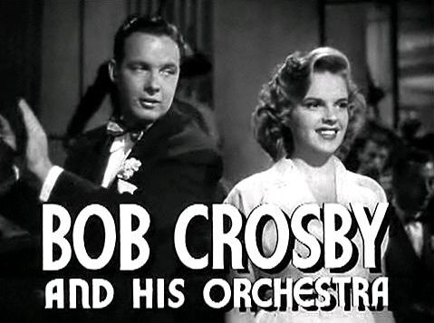 Screenshot of Judy Garland and Bob Crosby from the trailer for the film Presenting Lily Mars, 1943